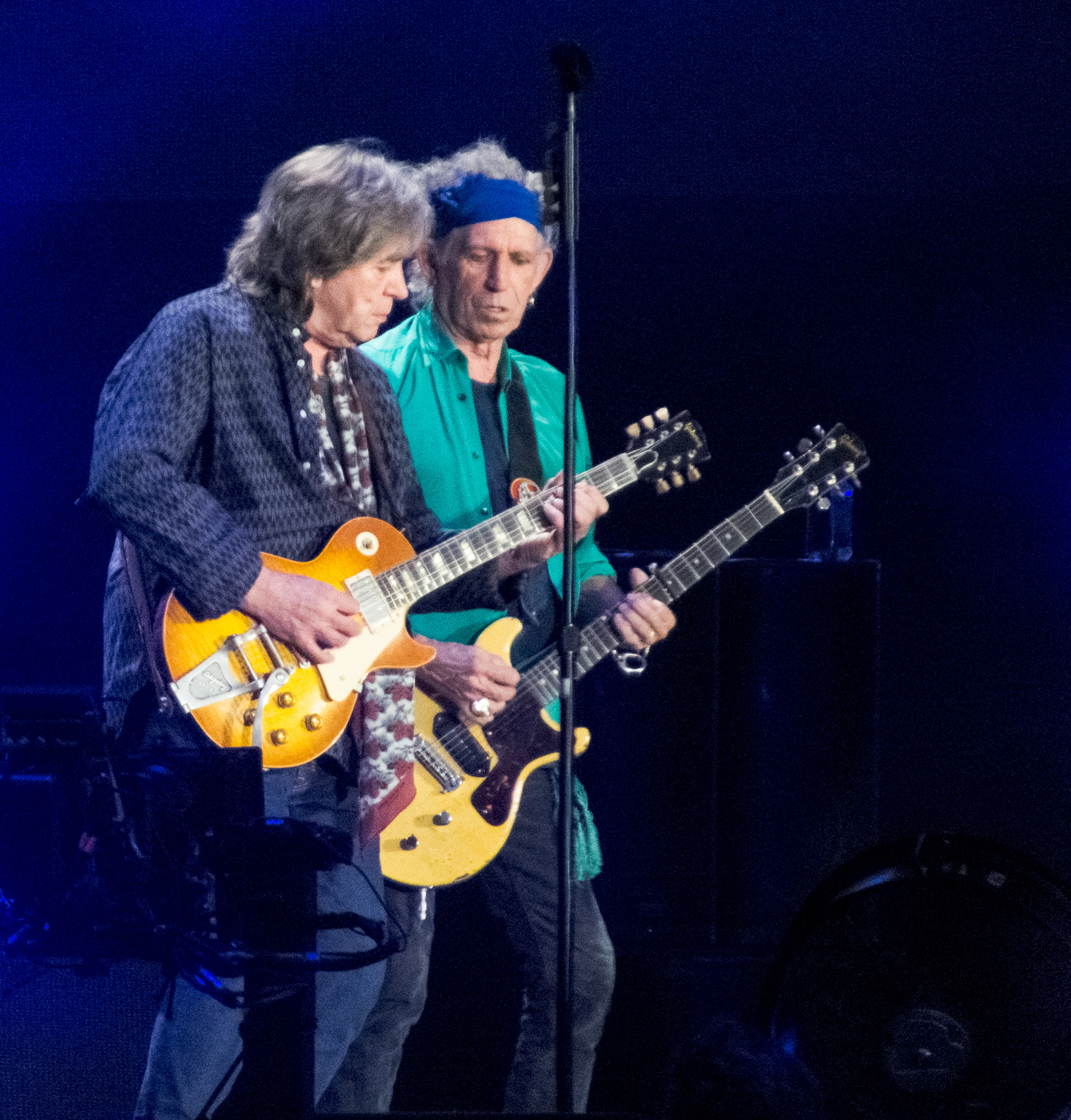 Keith Richards (right) with Mick Taylor at British Summer Time Festival in Hyde Park during a Rolling Stone concert, July 6, 2013.